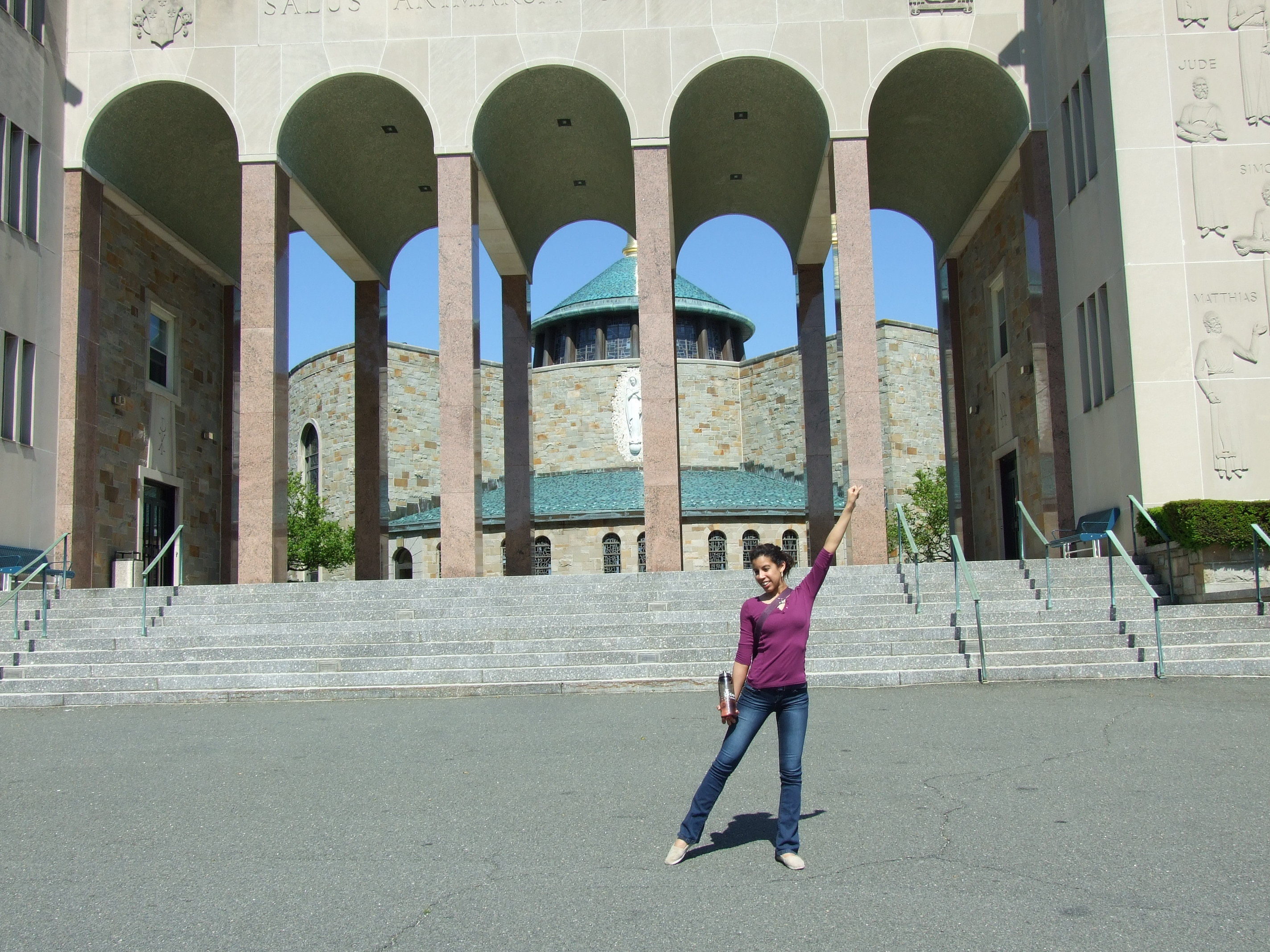 Cathedral College of the Immaculate Conception Main building